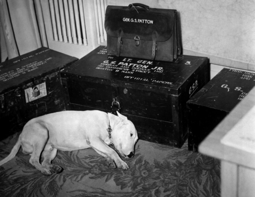 Willie, General Patton's dog. Photo taken right after General Patton's death, as Willie waits with personal belongings to be shipped to the United States